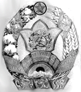 Several proposed coat of arms of Kirghiz SSR.